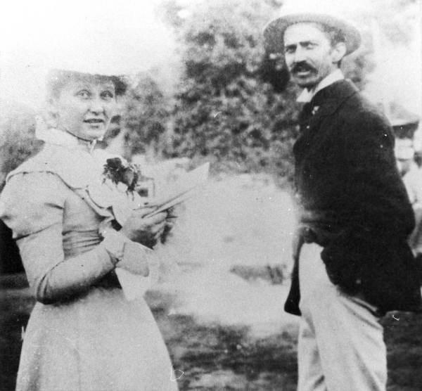 Cora Taylor Crane with author Stephen Crane